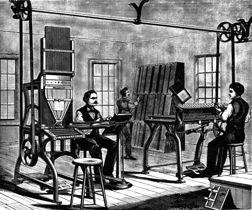 Typesetting machine, constructed by Charles Kastenbein (Patent: 1869)